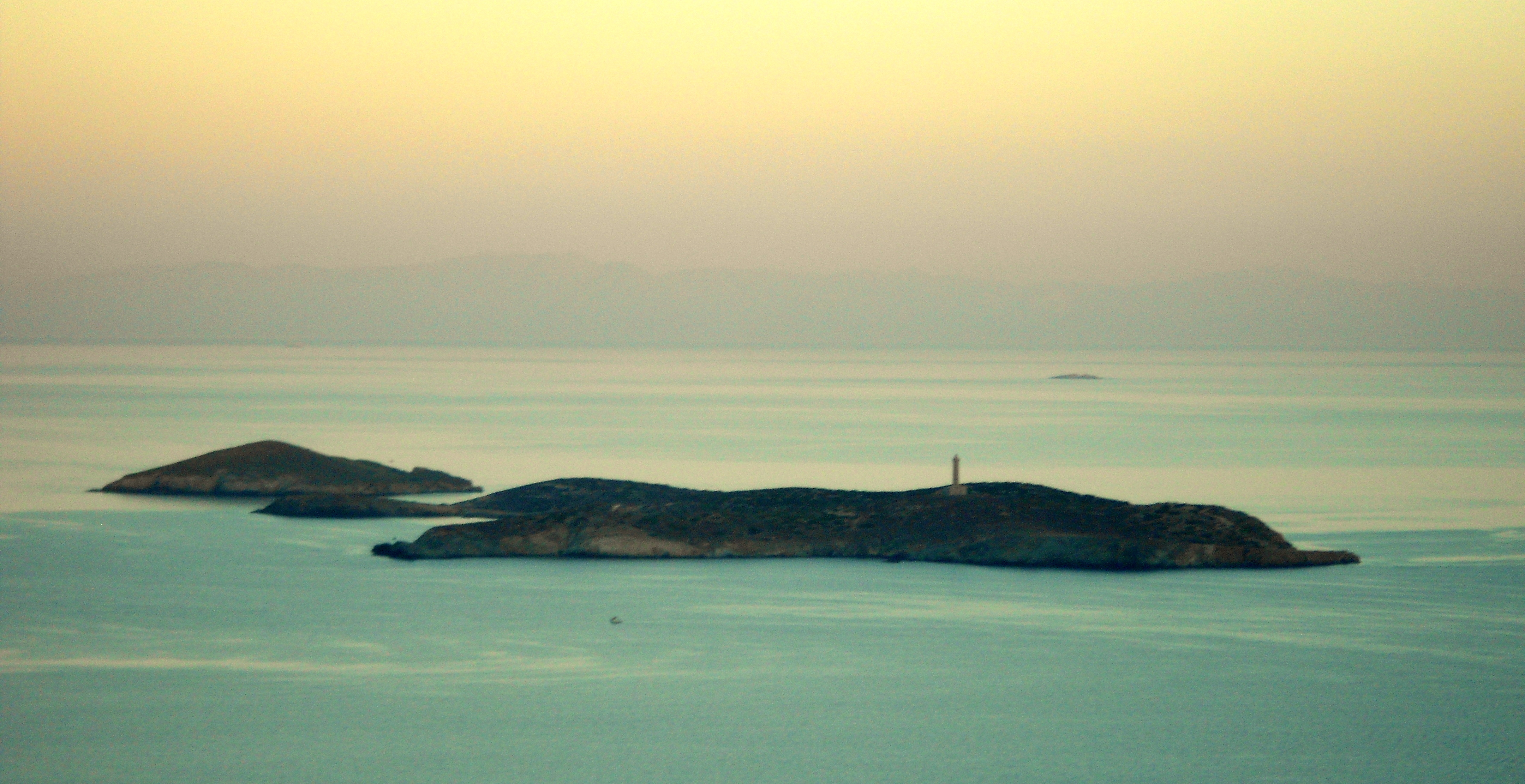 View of Didymi Island, near Syros.